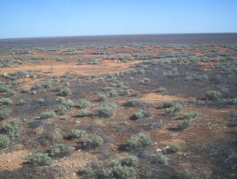 The Nullabor plain as viewed from the Indian Pacific. I took the photo.